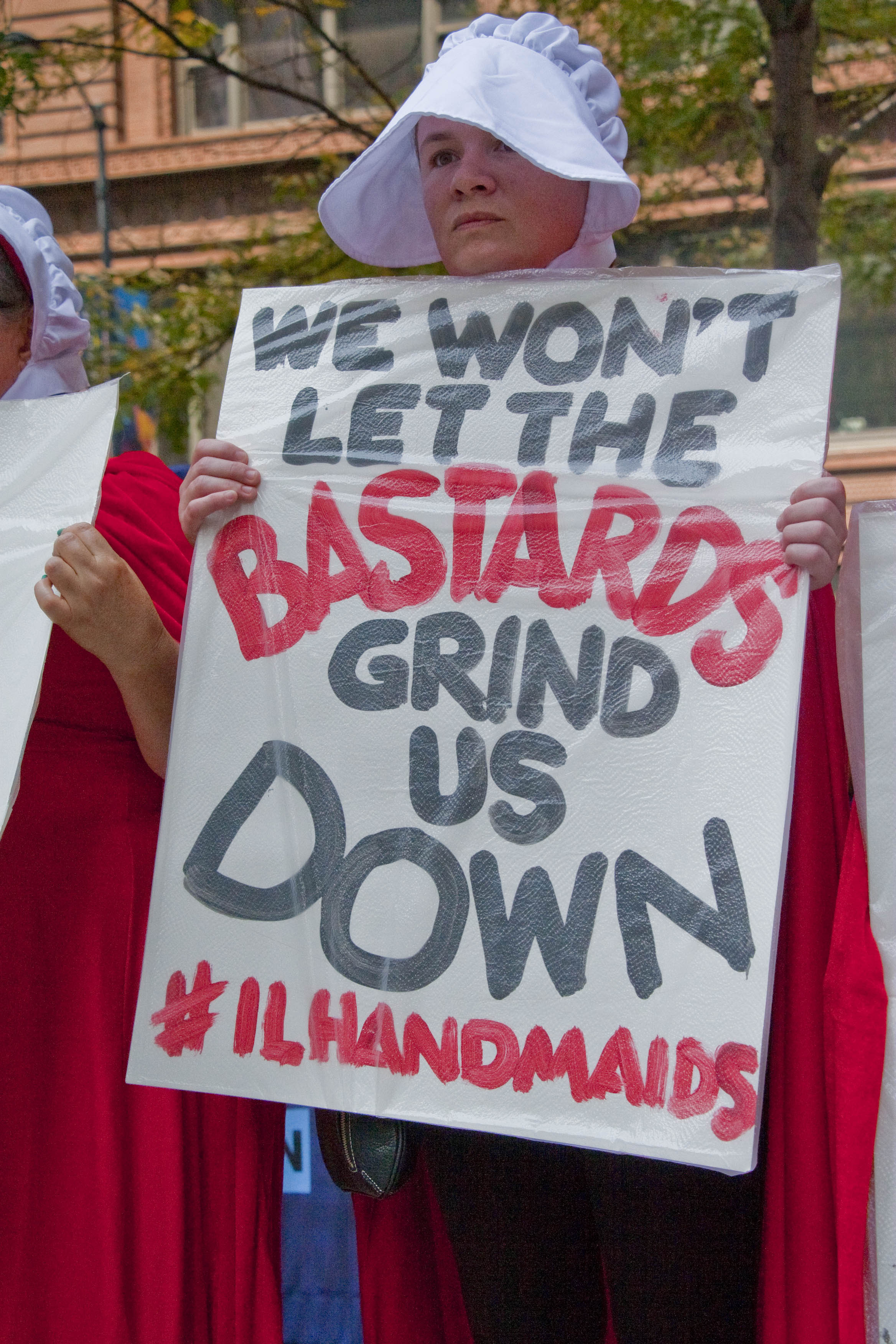 Illinois Handmaids Speak Out Stop Brett Kavanaugh Rally Downtown Chicago Illinois 8-26-18 3529